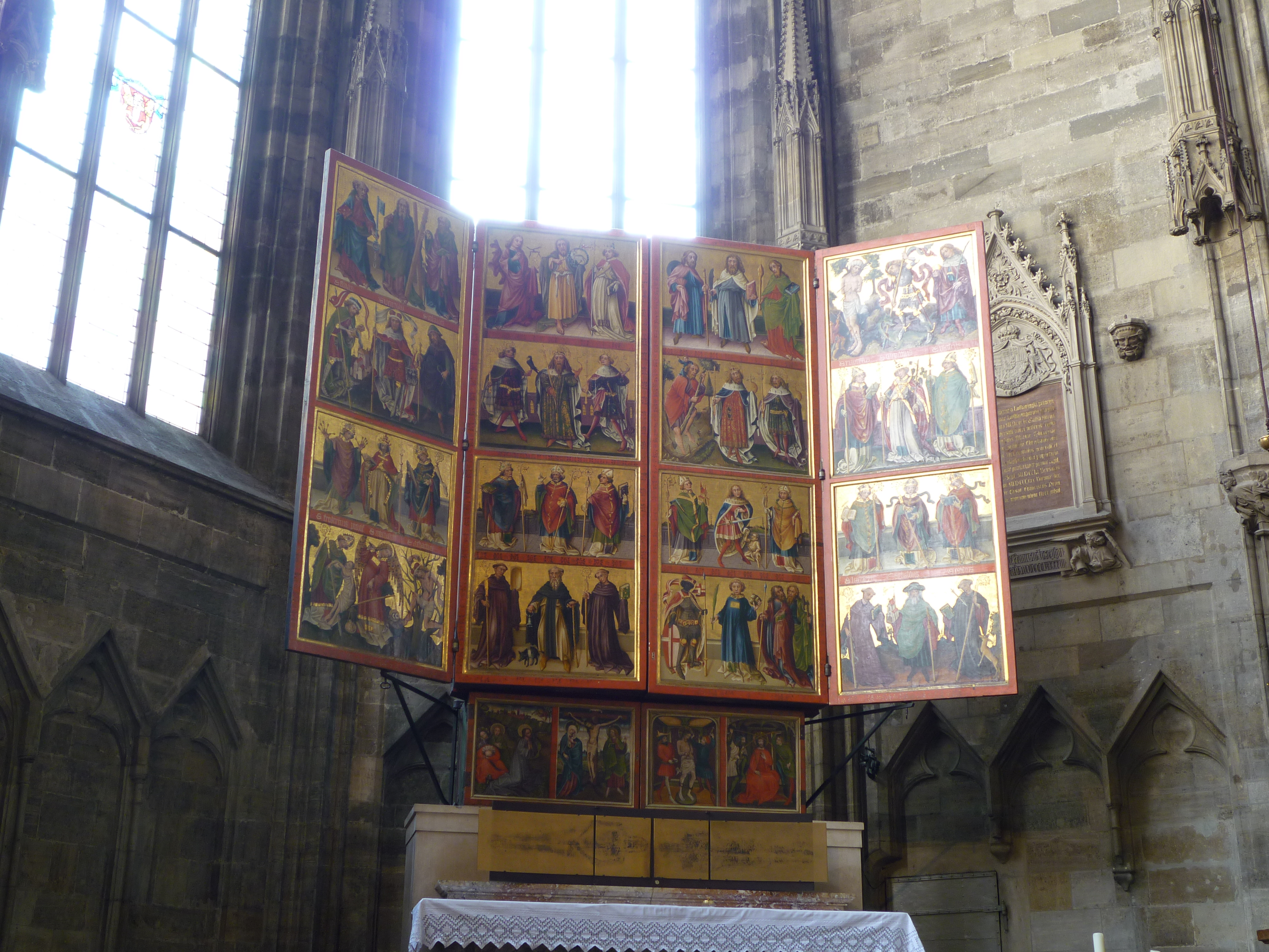 Wiener-Neustädter Altar as it was shown in former times on Sundays